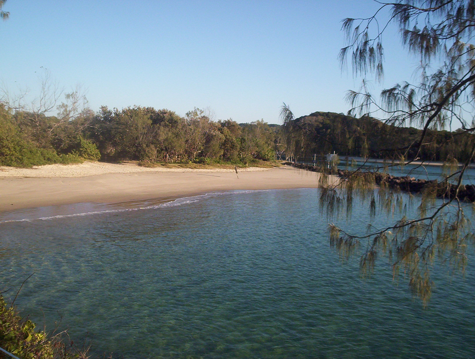 Photograph taken by Benedict Spearritt, Brunswick Heads swimming hole near the mouth of the river